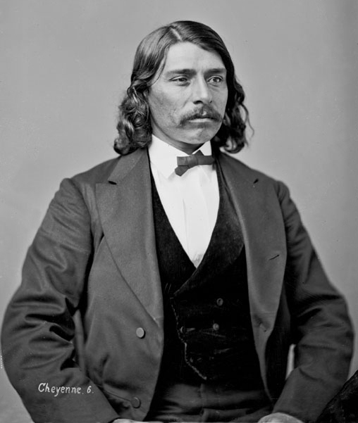 A portrait of Edmond Guerrier. Guerrier was the son of Frenchman William Guerrier and Walks In Sight, a Cheyenne. Guerrier provided testimony to Congressional investigators at Fort Riley, KS in 1865 concerning the Sands Creek Massacre.